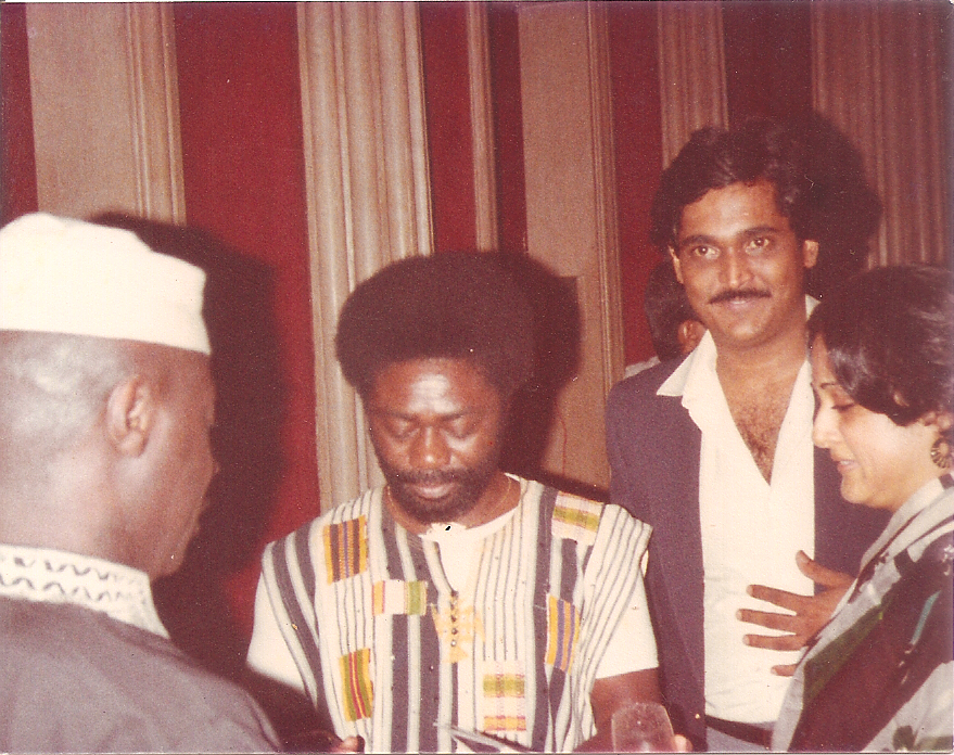 Shashi Gopal with Osibisa.